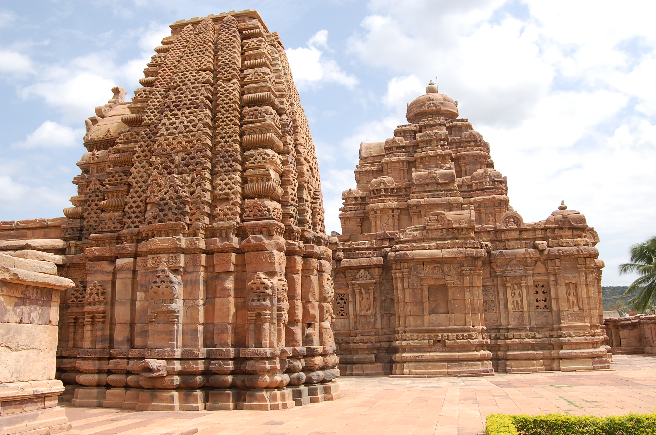 Pattadakal karnataka India